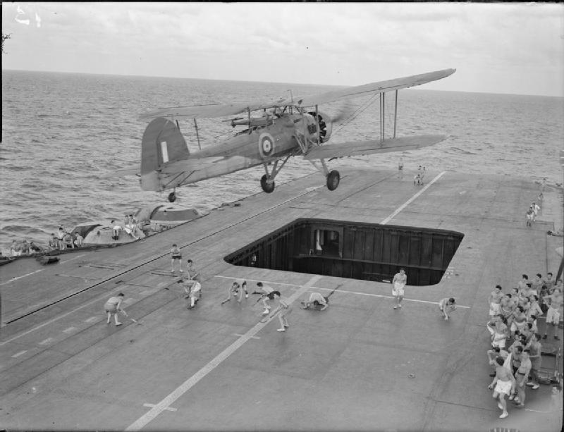 The Royal Navy during the Second World War A Fairey Swordfish flies low over the aircraft carrier HMS INDOMITABLE to drop a sleeve target. Immediately below, a game of hockey in progress on the flight deck.